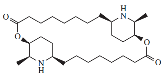 Carpaine structure